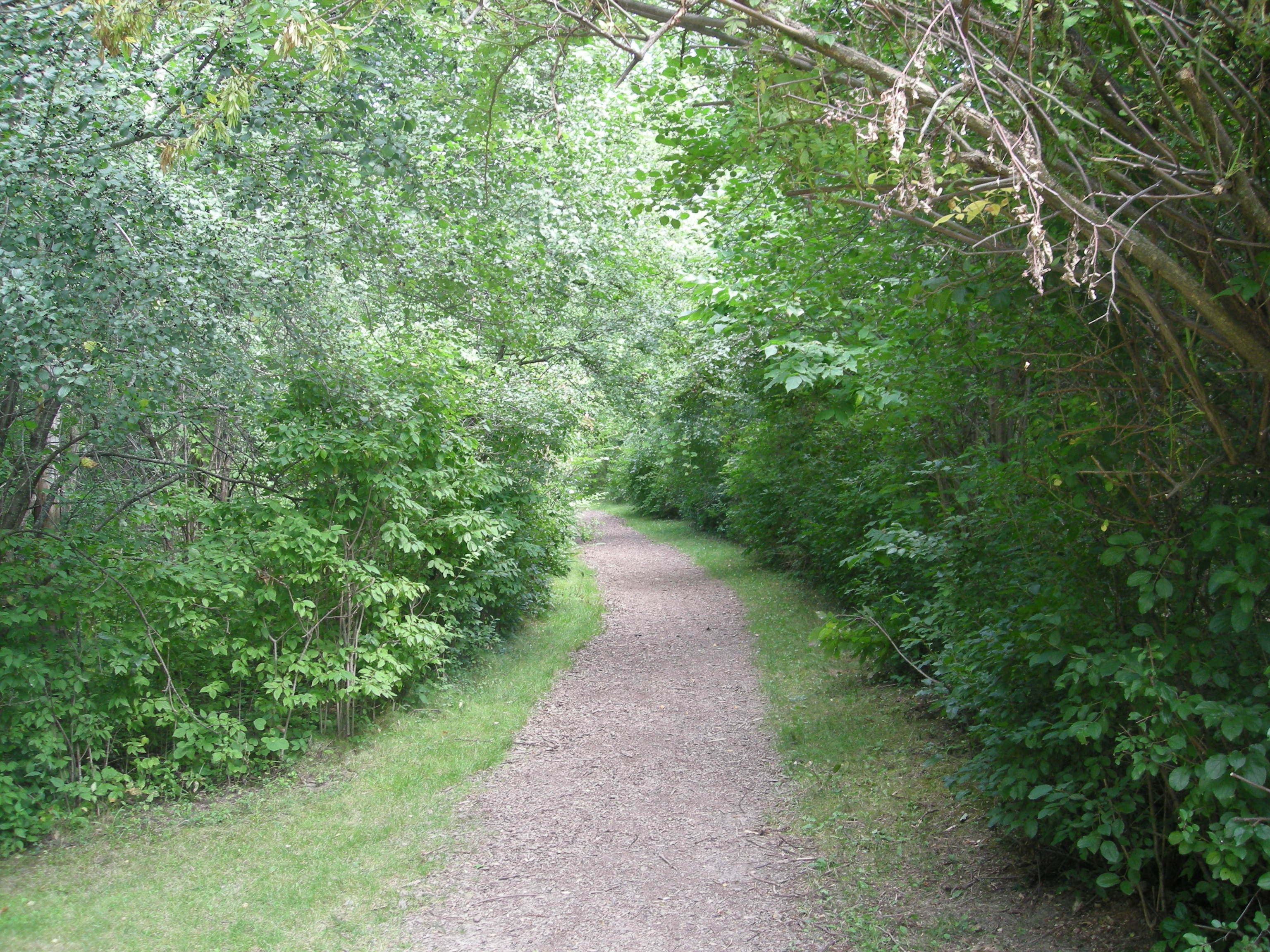 The Fitness Trail at County Farm Park in Ann Arbor, Michigan (United States).